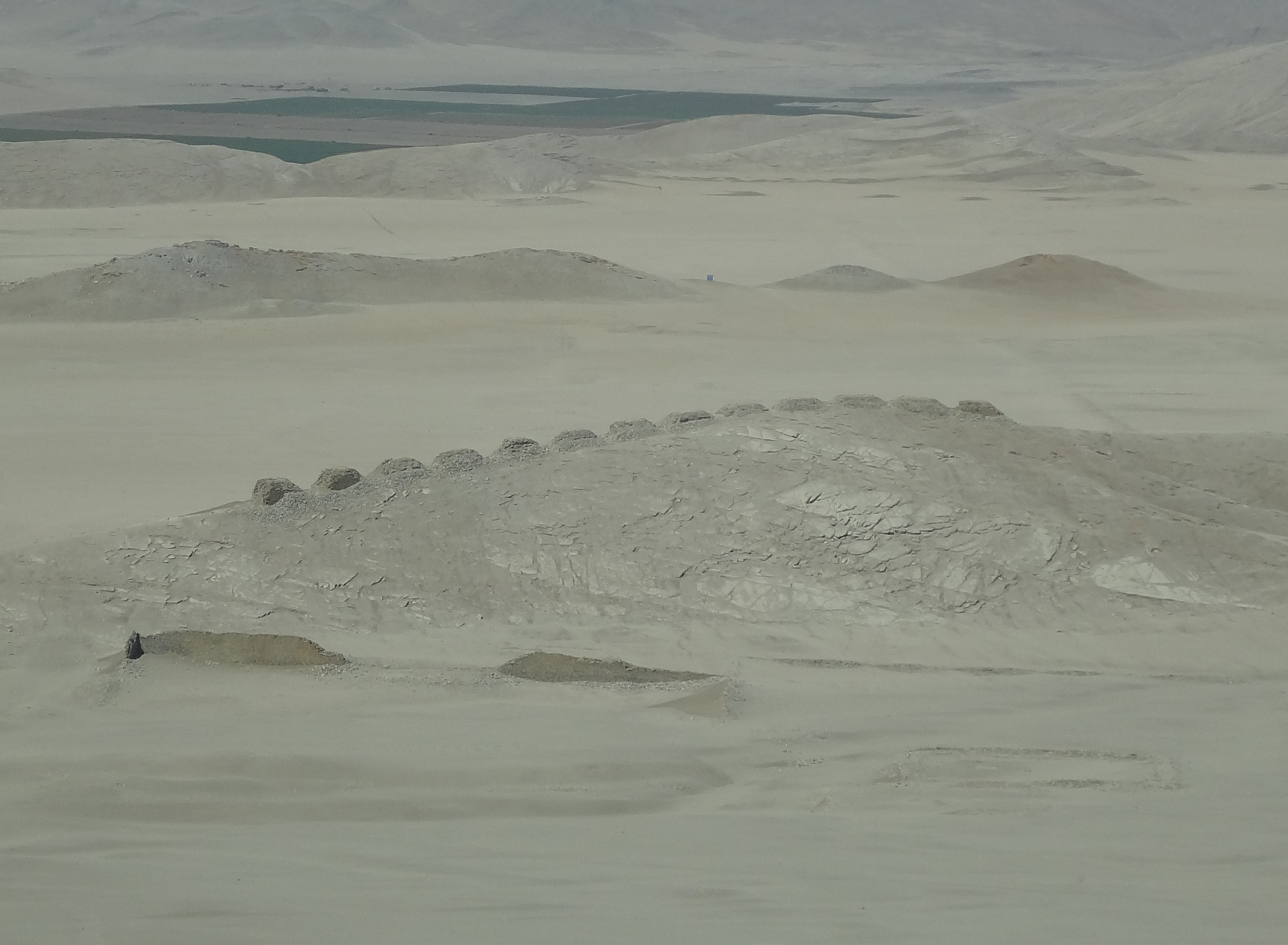 The "Thirteen Towers" of Chanquillo, Ancash, Peru, taken from the Chanquillo fortress (on the top of a neighbouring hill in the desert).